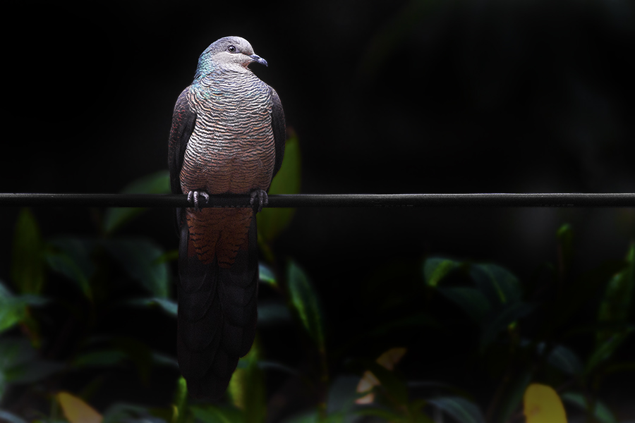 The species Barred Cuckoo-dove had been photographed from Neora Valley National Park Darjeeling West Bengal India 30.04.2016.